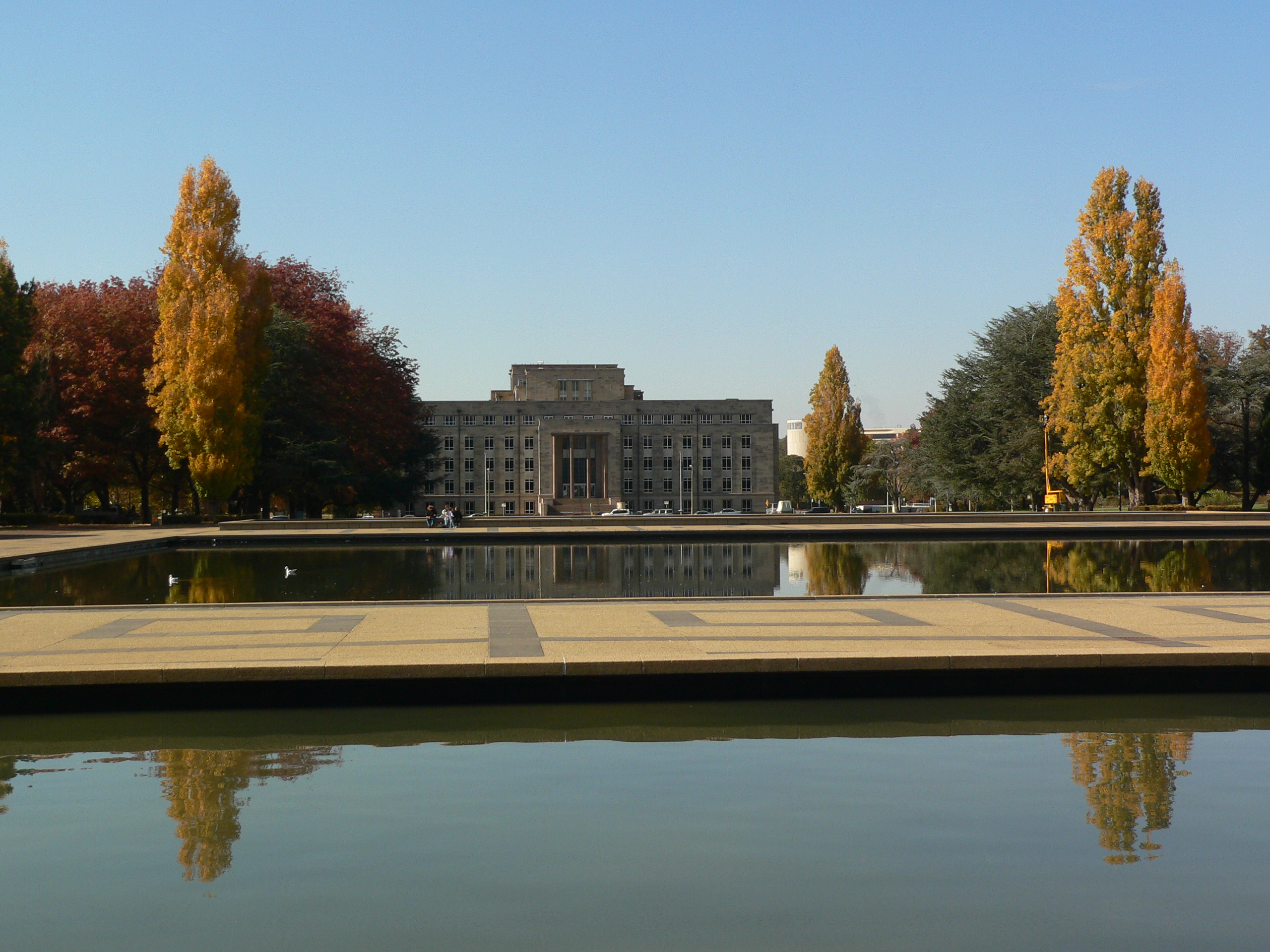 Fountain in Canberra, in the background: Department of Finance and Administration (John Gorton Building) at King Edward Terrace